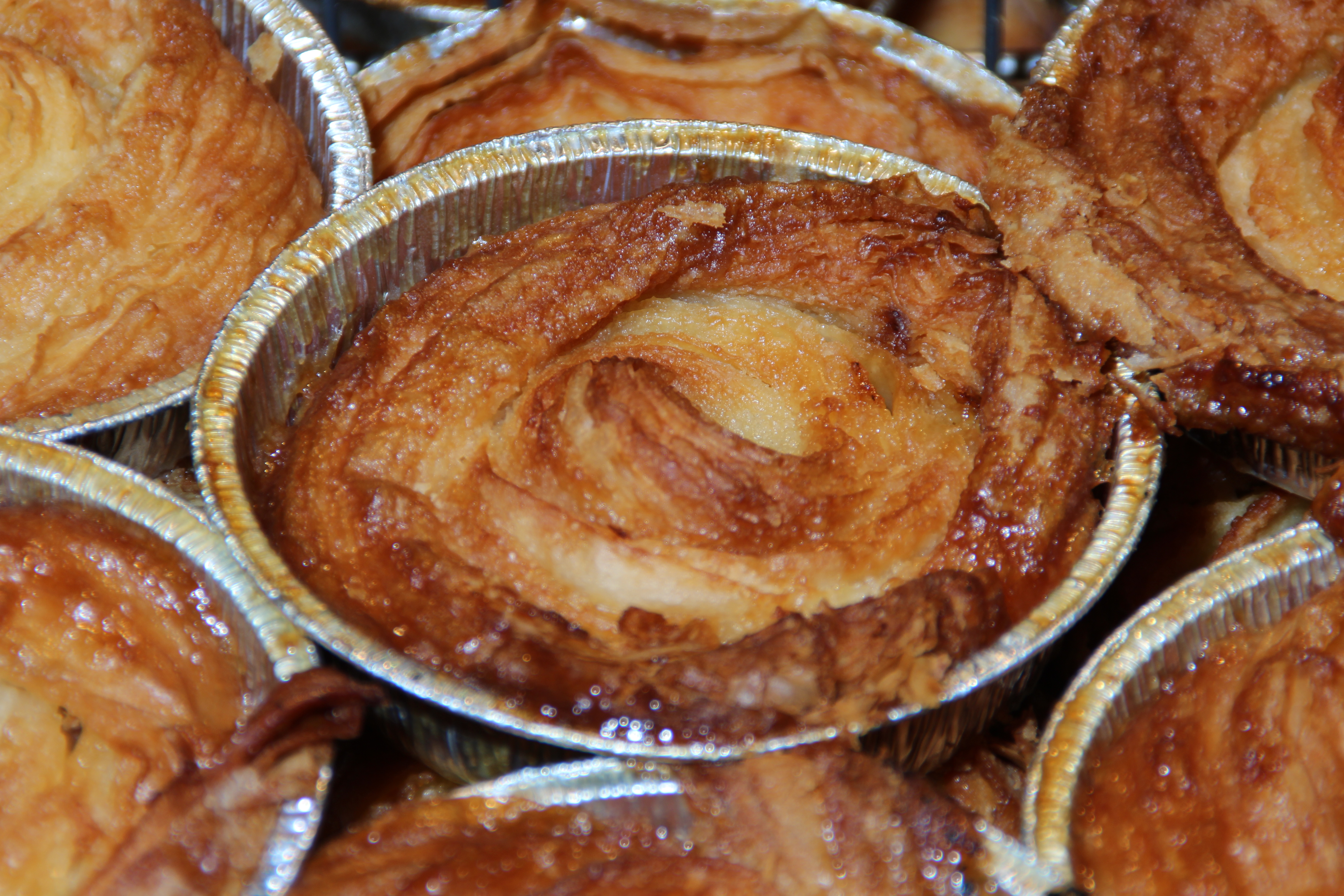 Kouign amann cake at the Fair of agriculture and nature in Essonne 2013 was held in Villebon-sur-Yvette, France.